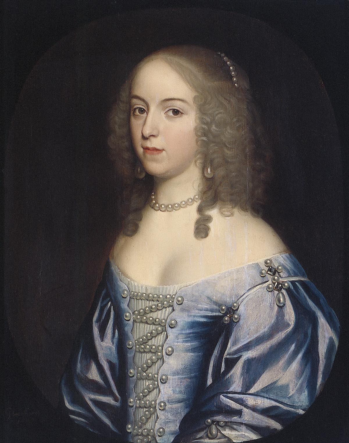 Portret van een vrouw, mogelijk Emilia van Nassau-Beverweerd (1635-1688), echtgenote van Thomas Butler (1634-1680), graaf van Ossory, ridder in de orde van de Kouseband (1672)